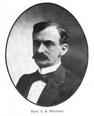 Prof. Sidney Abram Weltmer taken from the online book of Grace Mann Brown : "Seven Steps in the Life of Prof. S. A. Weltmer" 1906